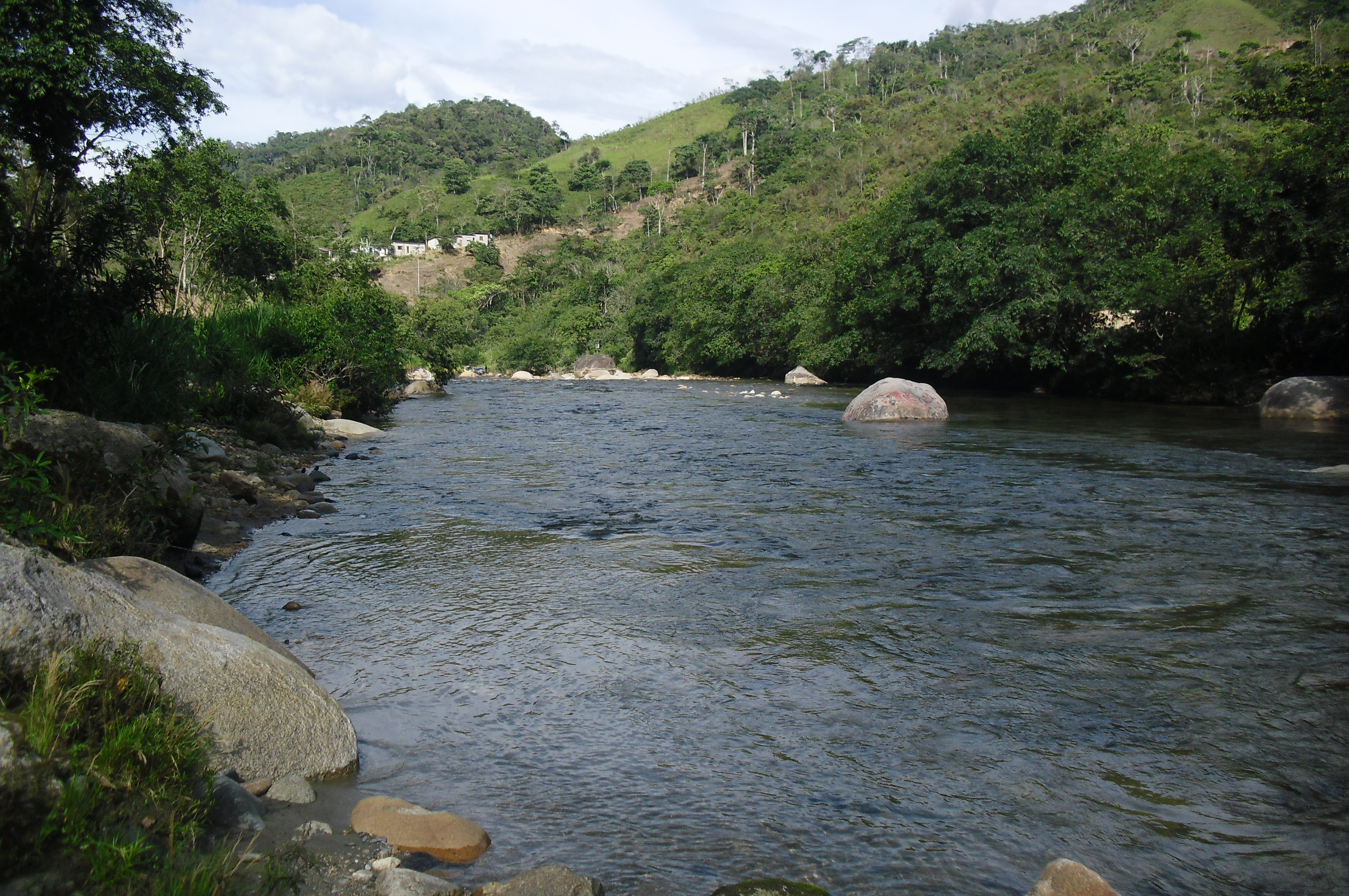 Río Bombuscaro